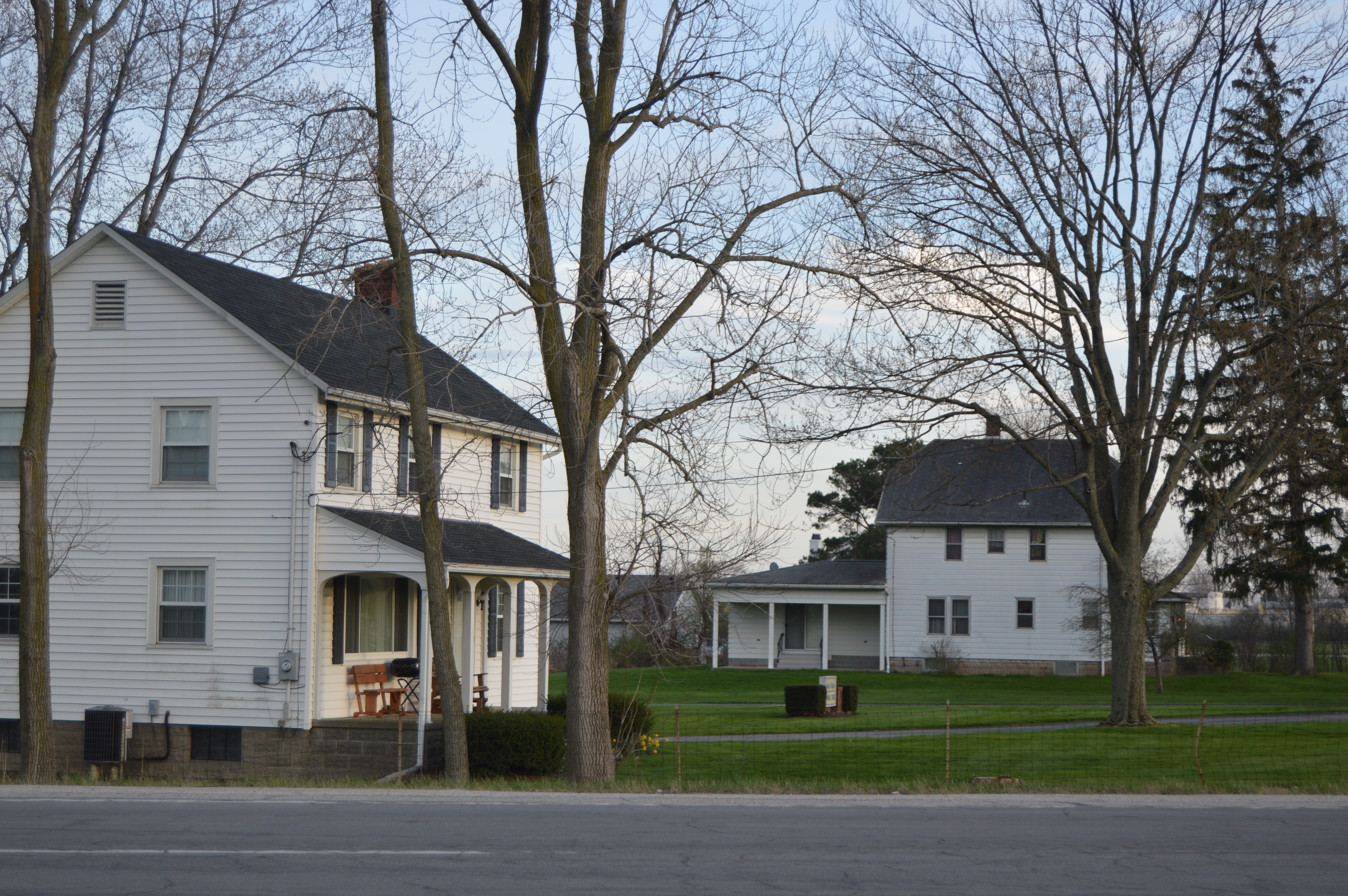 Houses on the eastern side of Murray Ridge Road northwest of Elyria in northwestern Elyria Township, Lorain County, Ohio, United States. Photo looks south from State Route 113.